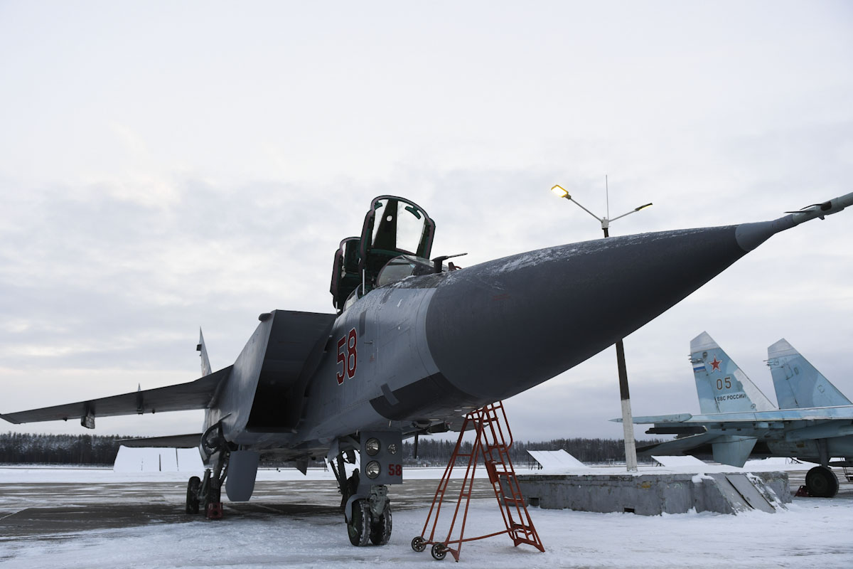 Mikoyan-Gurevich MiG-31DZ